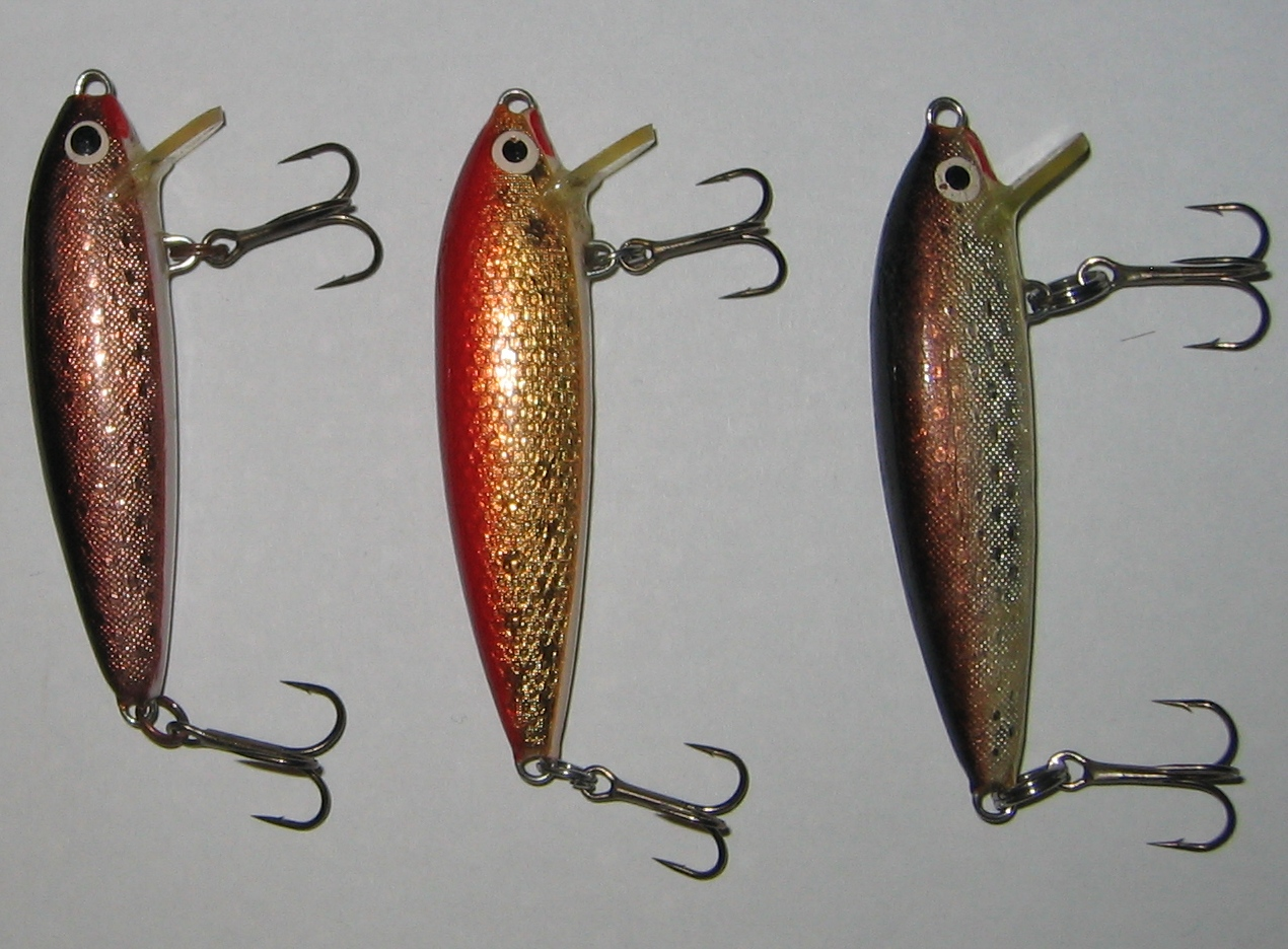 Original old LGH lures from Finland, LGH-PEUKALOINEN